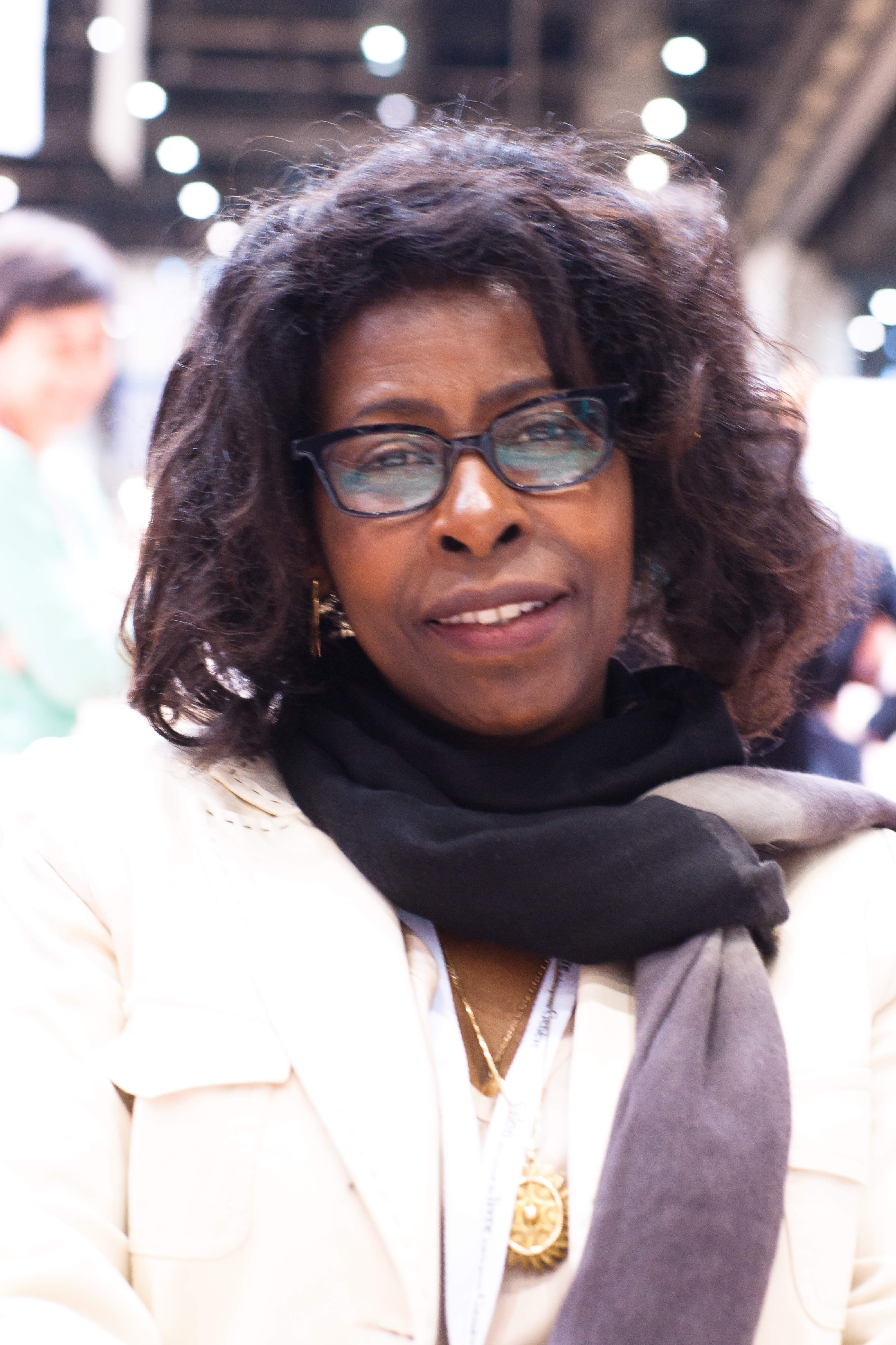 Scholastique Mukasonga - Geneva Book Fair 2012